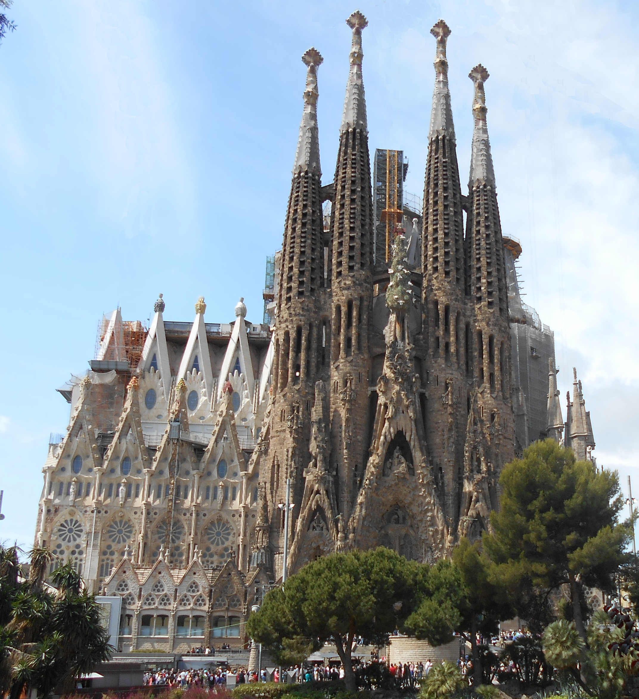 sagrada familia 2016, cranes removed